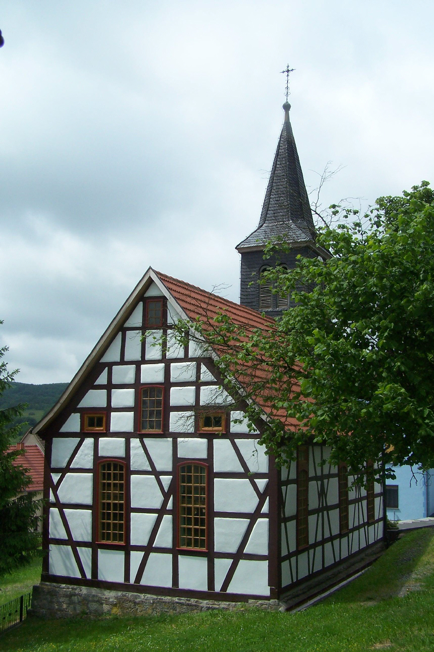 The church in Andenhausen.